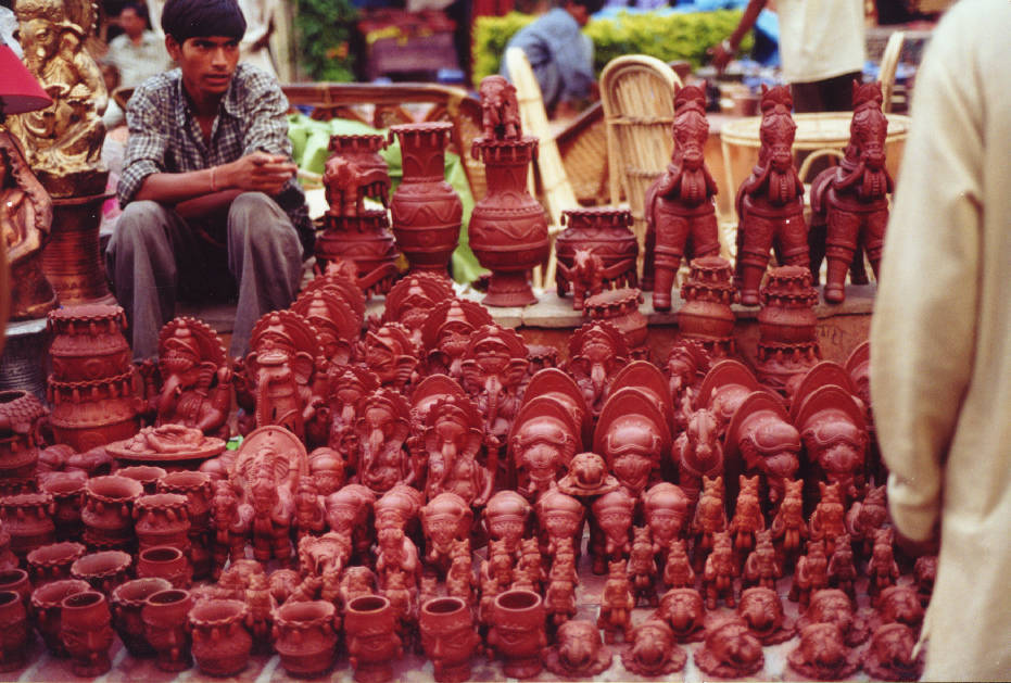 Pottery seller, Dilli Haat, Delhi, India. Photographer: Kundan Sen.